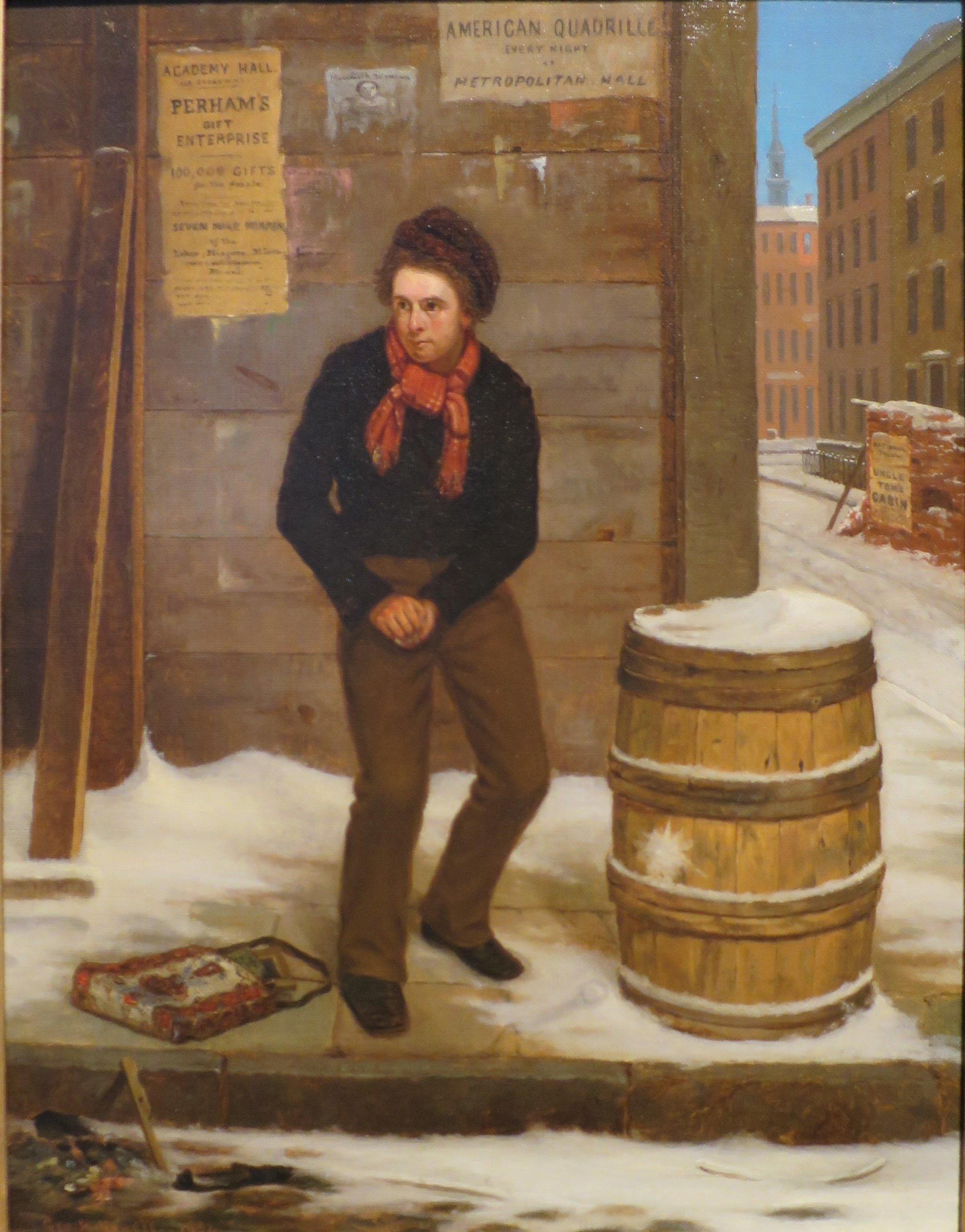 George Henry Yewell – Self Defense, 1854, oil on canvas, High Museum of Art